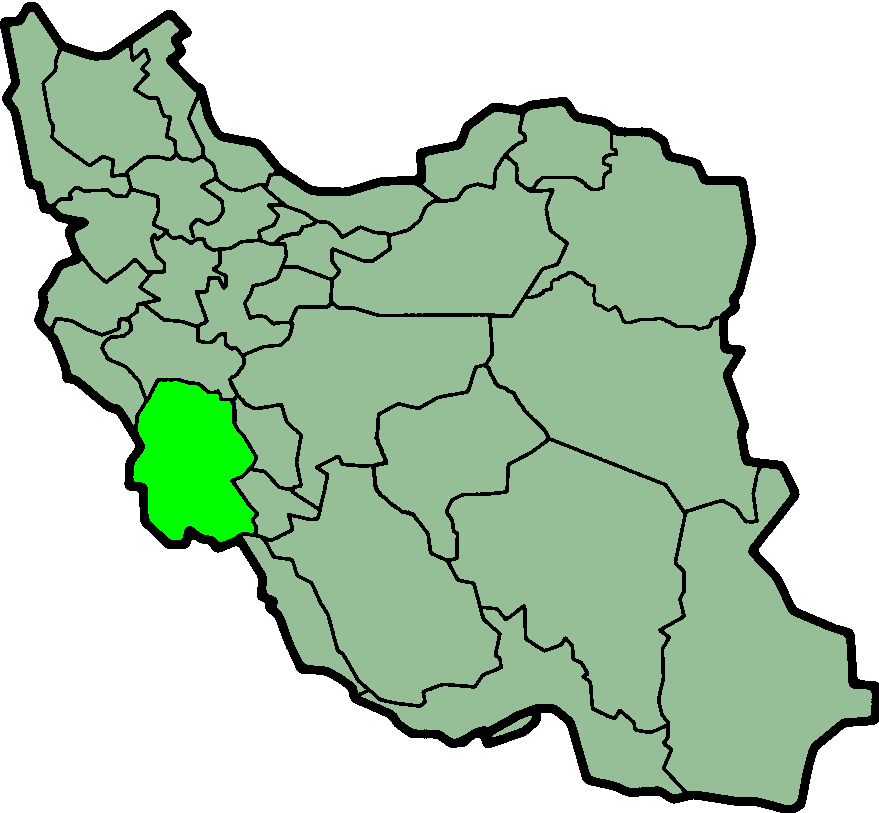 Province of Khuzestan, Iran